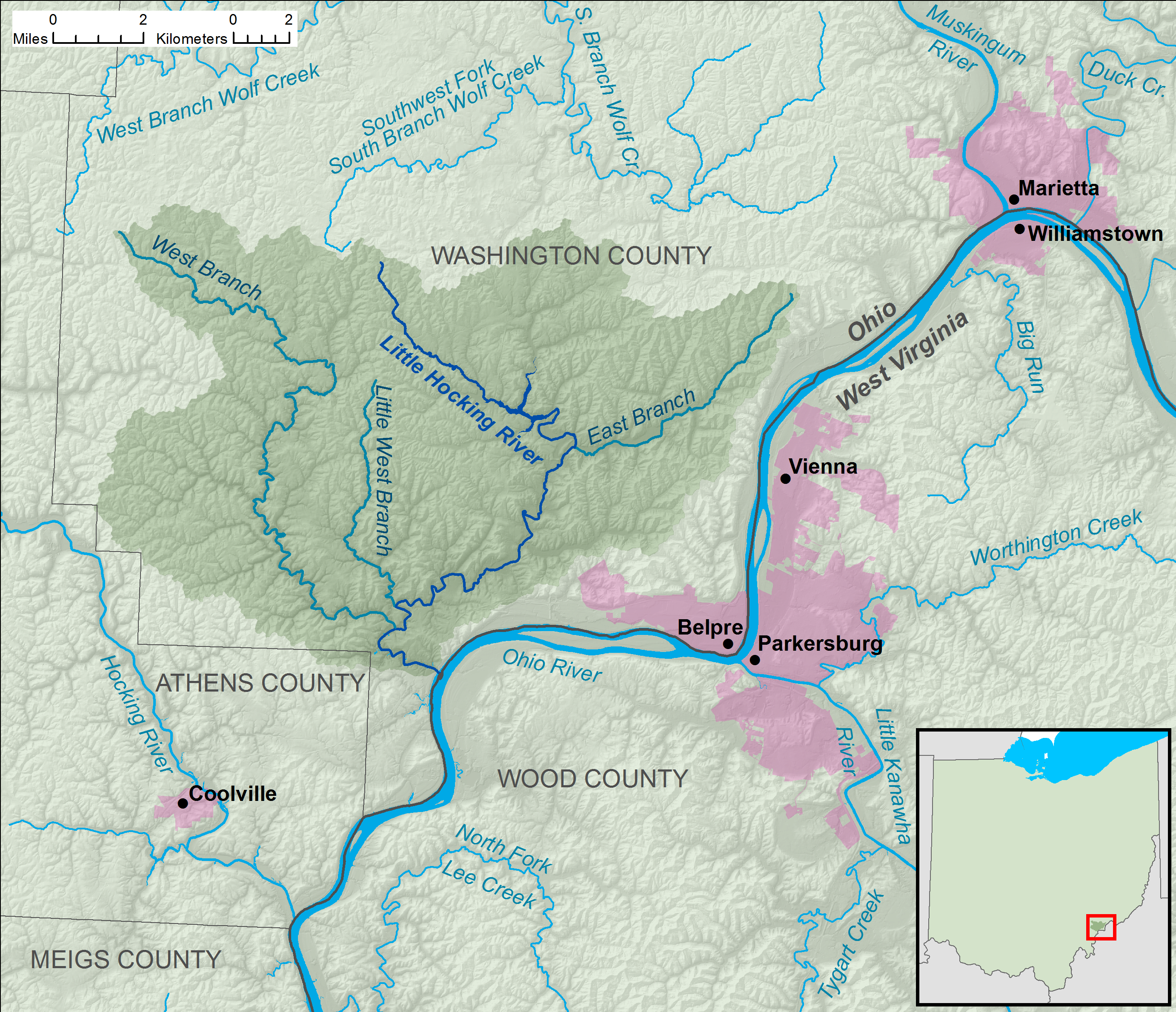 A map of the Little Hocking River and its watershed (USGS HUC-12 codes 050302020103, 050302020104, and 050302020105) in Washington and Athens counties in Ohio.